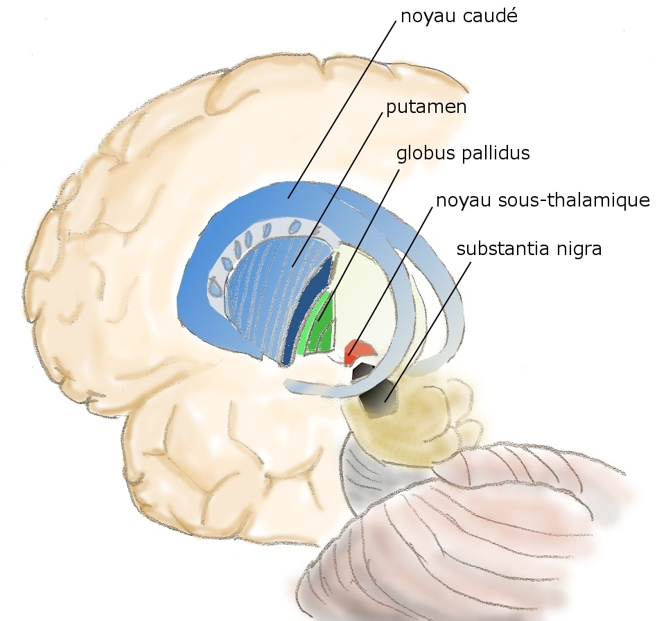 basal ganglia